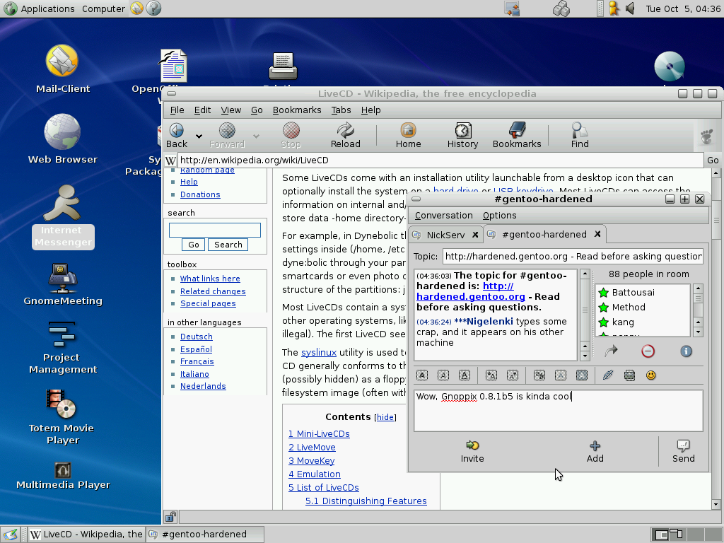 Screenshot of Gnoppix 0.8.1beta5 taken by John Moser, running inside qemu, with qemu cropped out of the picture. See also Image:Gnoppix.png